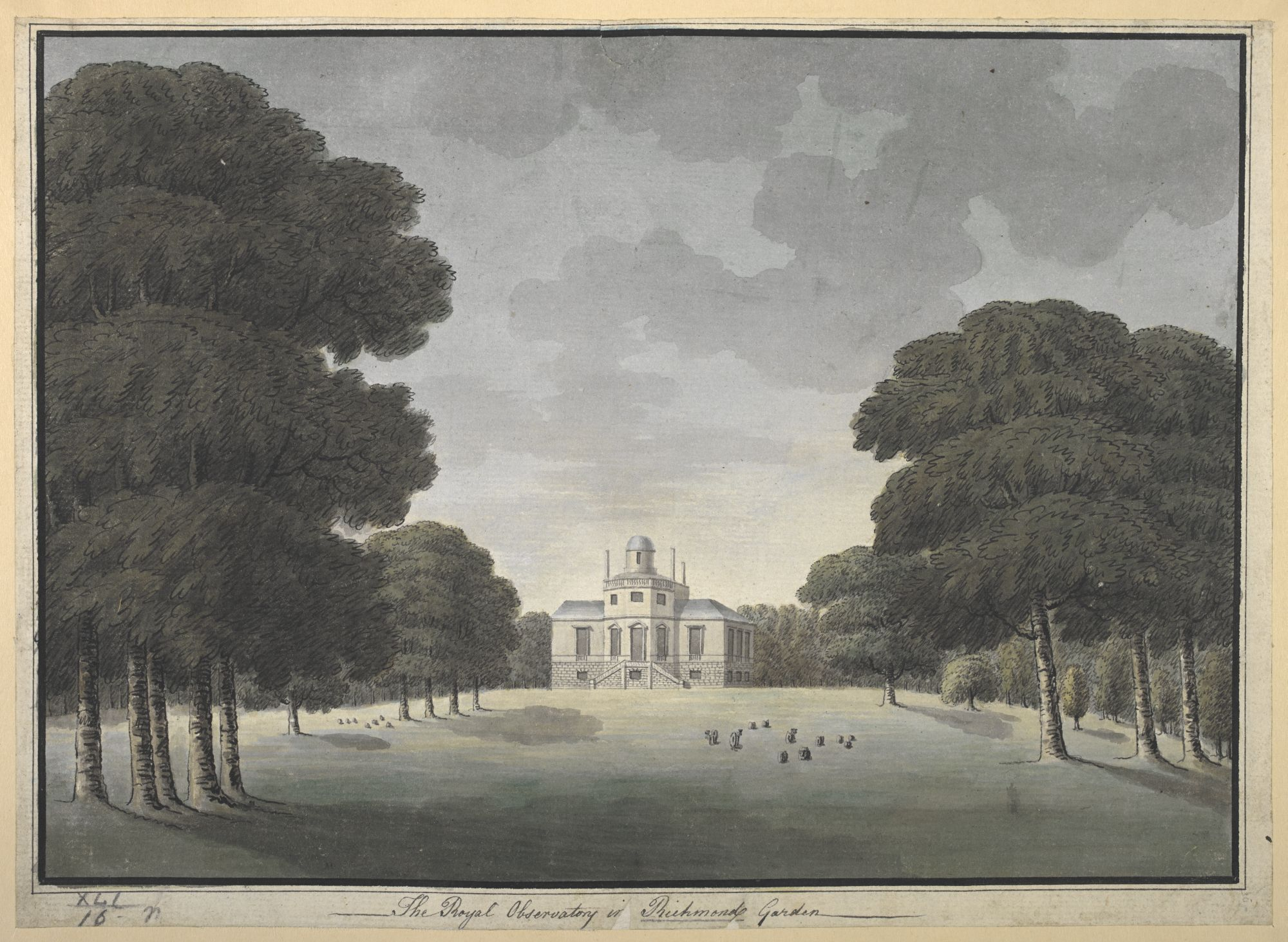 The Royal Observatory in Richmond Garden by John Spyers